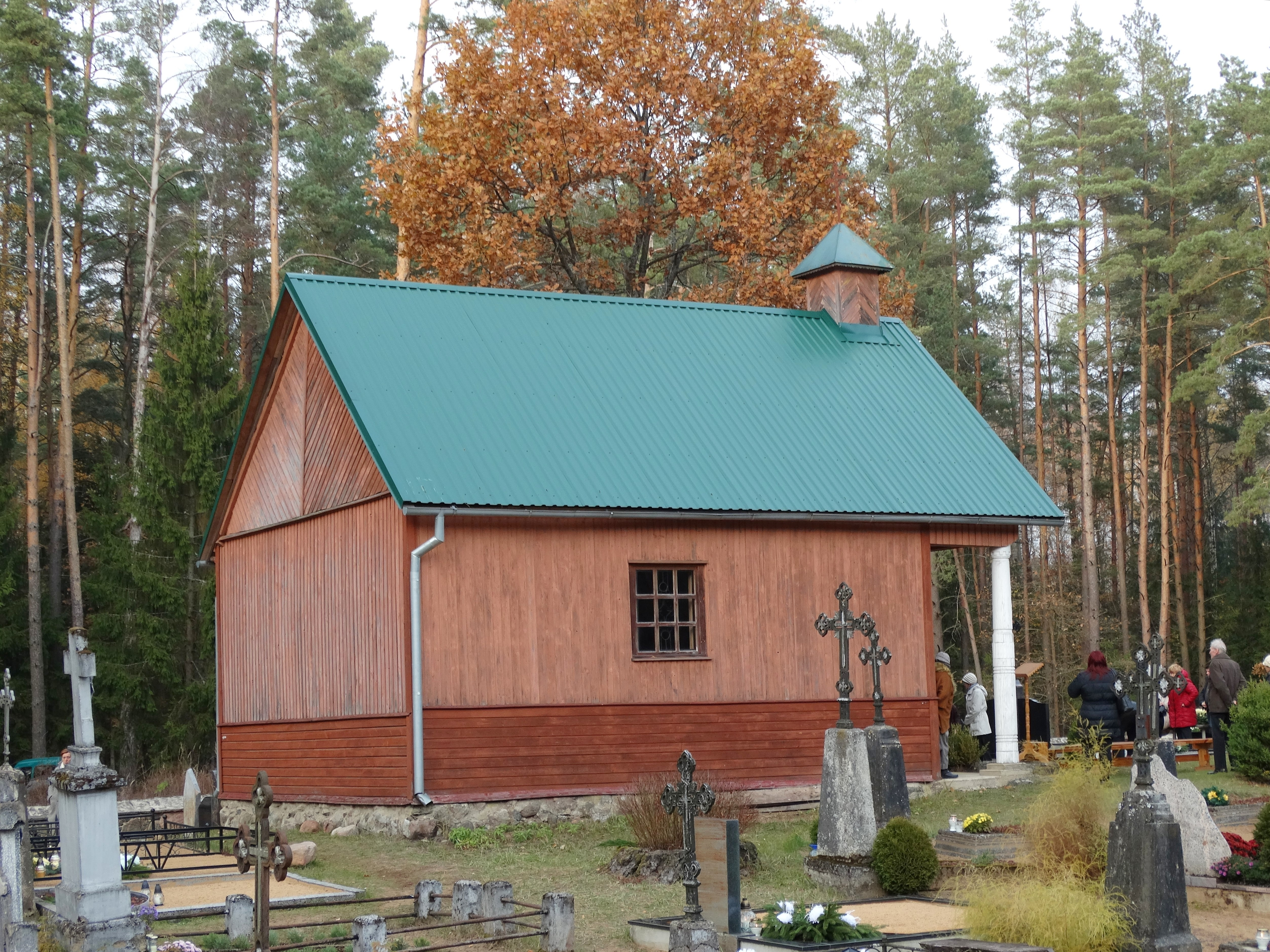 Chapel, Šilelis, Panevėžys district, Lithuania